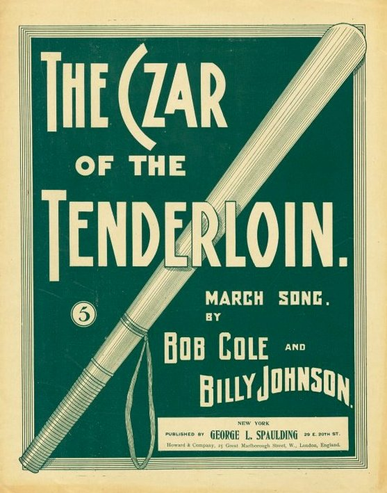 Sheet music for the song "Czar of the Tenderloin" Image Title: The Czar of the Tenderloin / by Bob Cole and Billy Johnson. Alternate Title: The Czar of the Tenderloin, with great propriety. [first line of chorus] Creator(s): Cole, Bob, 1868-1911 -- Composer Johnson, Billy, 1858-1916 -- Lyricist Johnson, Billy, 1858-1916 -- Composer Additional Name(s): Cole, Bob, 1868-1911 -- Lyricist Published Date: [c1897] Specific Material Type: music Item Physical Description: 1 score (6 p.) ; 36 cm. Notes: Cover includes a drawing of a police stick (truncheon). Note 2.) Summary: Many locations have heads of state to enforce law, but not in the Tenderloin of New York City where its czar rules in a manner typical of criminals. Source: American popular songs / Sheet music, 1897 Location: The New York Public Library for the Performing Arts / Music Division Digital ID: 1165476 Record ID: 464421 Digital Item Published: 6-25-2010; updated 6-4-2009